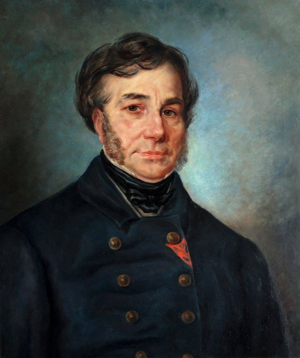 Nicolas Jean Baptiste Daniel Mestdagh